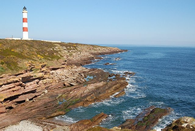 Tarbat Ness Portmahomack Lighthouse Tarbat Ness/Portmahomack Lighthouse had a particular importance to the north fishing fleets of old. It marked the safe passage to Portmahomack. In the days of sail powered open boats which were easily swamped easterly gales gave them real problems. The wind and swell meant that east facing ports like Helmsdale, Dunbeath, Lybster and even occasionally Wick became too dangerous to attempt landing. Portmahomack is one of the few ports on the east coast that faces west and therefore much protected from the easterly wind and swell. 18 years ago 8541